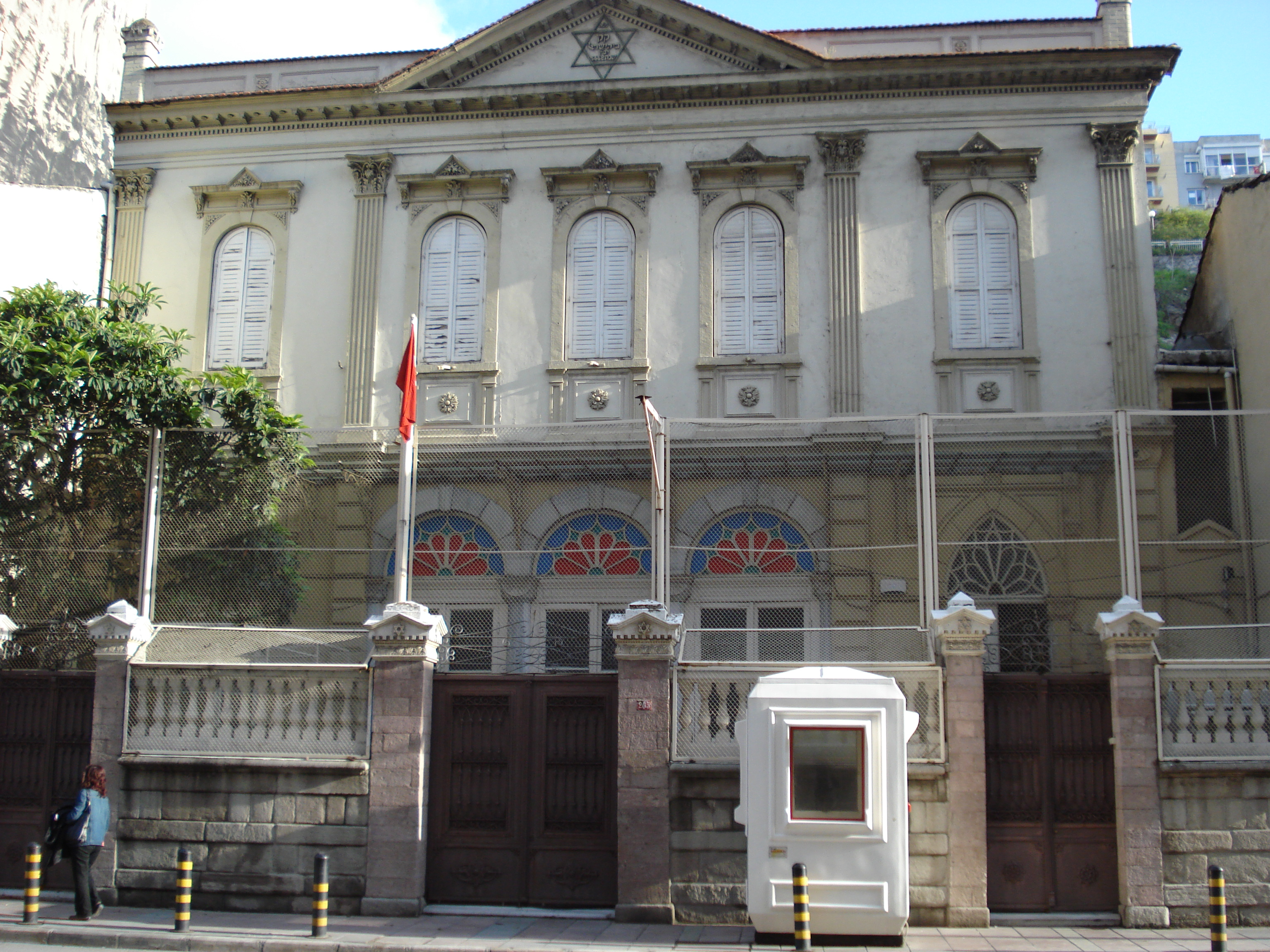 Bet Israel Synagogue, Izmir, Turkey